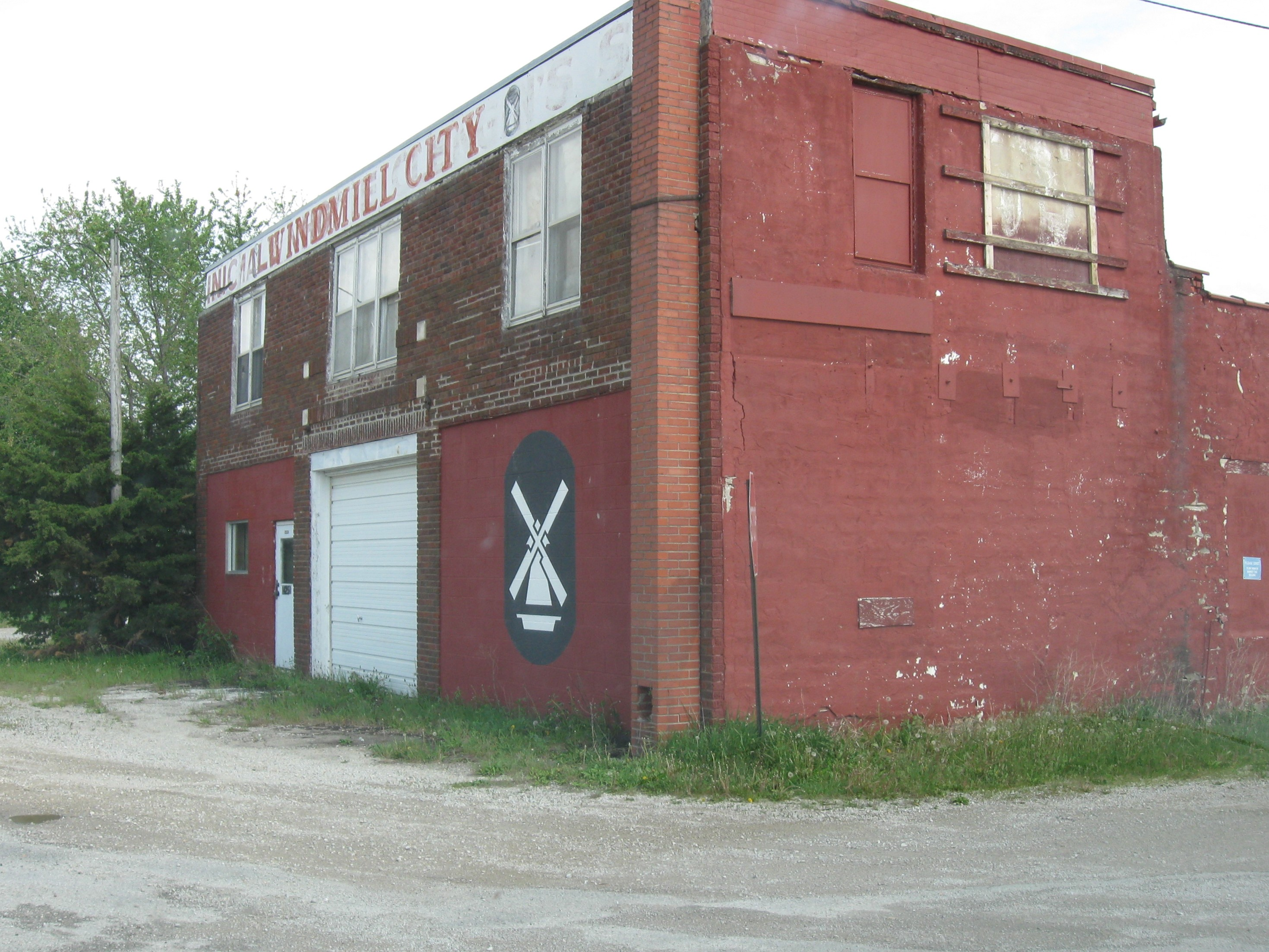 Walford, Iowa. Bill Whittaker (talk) 16:10, 24 May 2009 (UTC)